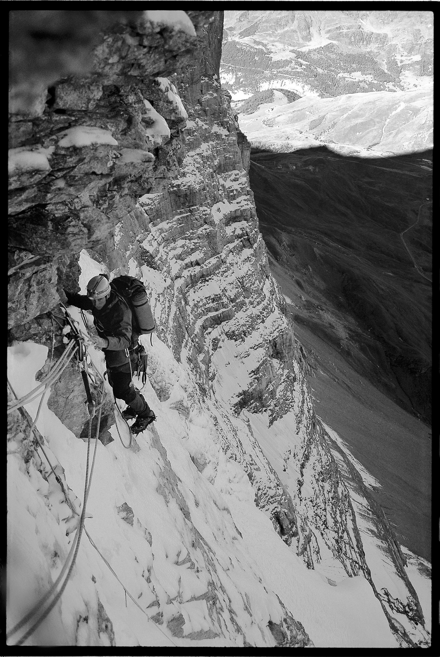 Luke Hughes climbing on Mt Xixabangma 8027m - October 1987